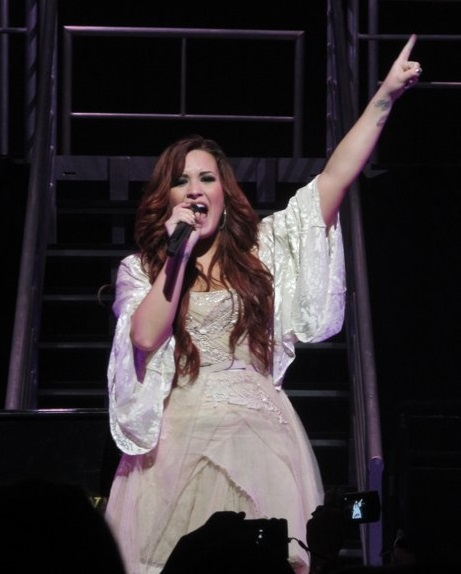 Close up of Demi Lovato - A Special Night